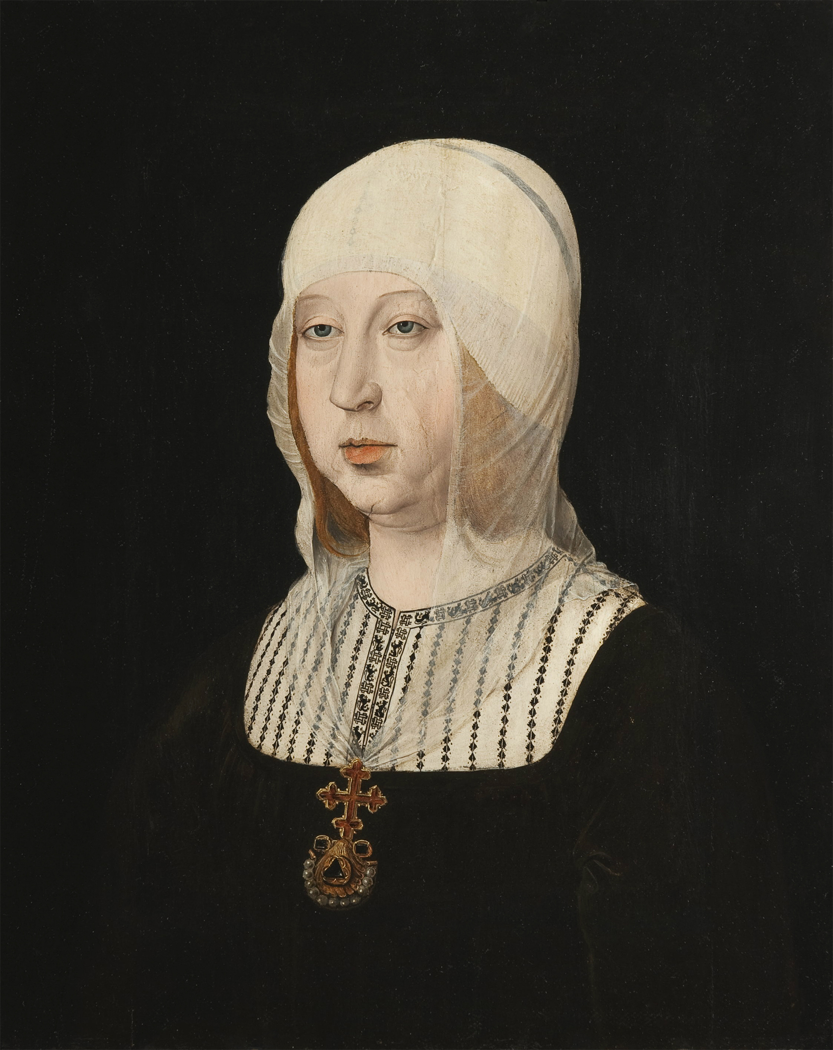 Portrait of the queen Isabella I of Castile (1451-1504), by Juan de Flandes.